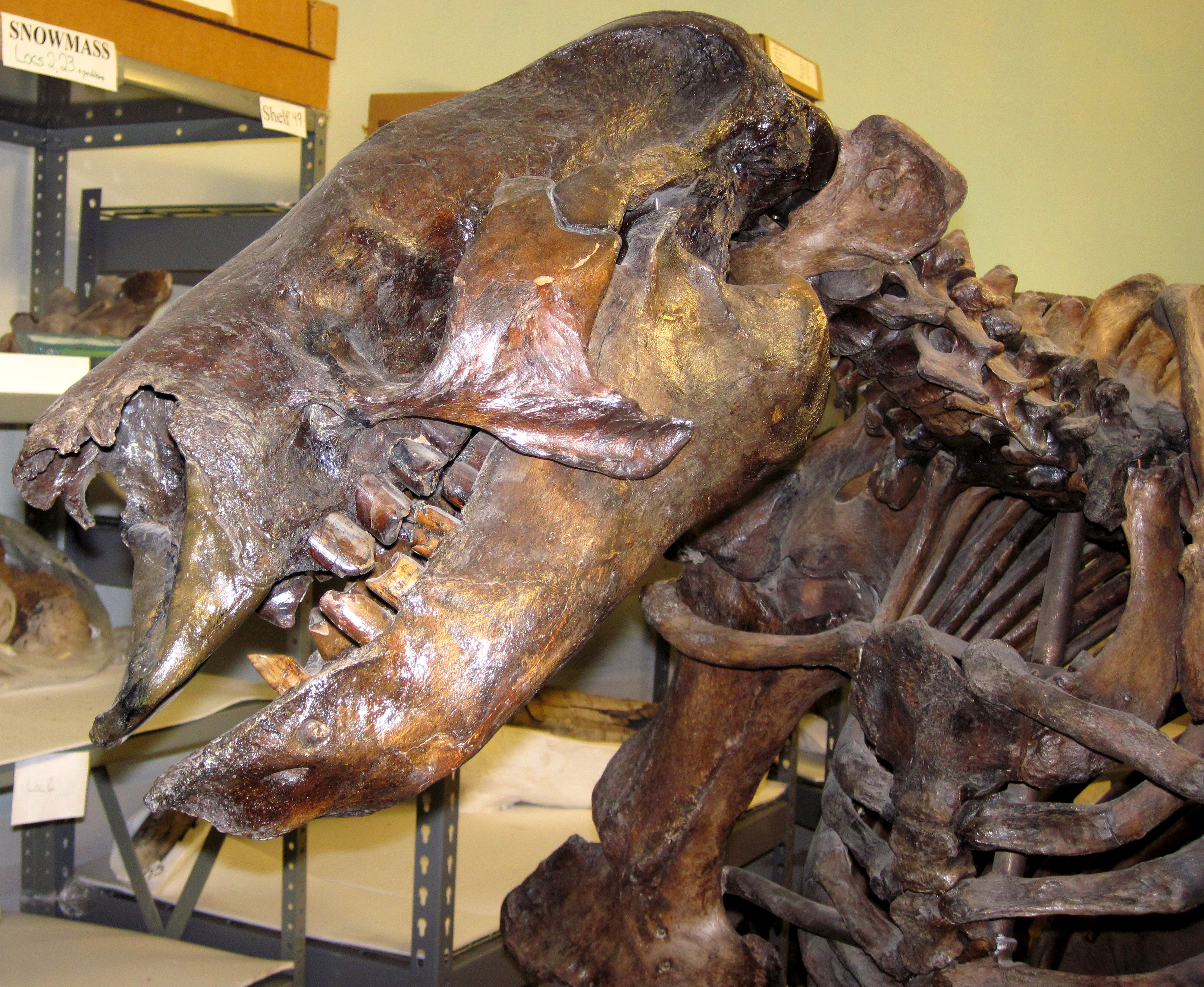 Paramylodon harlani Owen, 1840 ground sloth skeleton from the Pleistocene of California, USA (Denver Museum of Nature & Science, Denver, Colorado, USA). Living sloths are medium-sized, very slow-moving, arboreal mammals of South America & Mesoamerica. During the middle & late Cenozoic, several large, ground-dwelling sloth species existed in the Americas. Shown here is one of the giant ground sloths known from the late Pleistocene of North America. This is Harlan’s ground sloth, Paramylodon harlani (a.k.a. Glossotherium (Paramylodon) harlani), whose body length reached two meters. Classification: Animalia, Chordata, Vertebrata, Mammalia, Xenarthra, Phyllophaga, Mylodonta, Mylodontoidea, Mylodontidae Stratigraphy: La Brea Asphalt, Upper Pleistocene Locality: Rancho La Brea tar pits, Los Angeles, southern California, USA